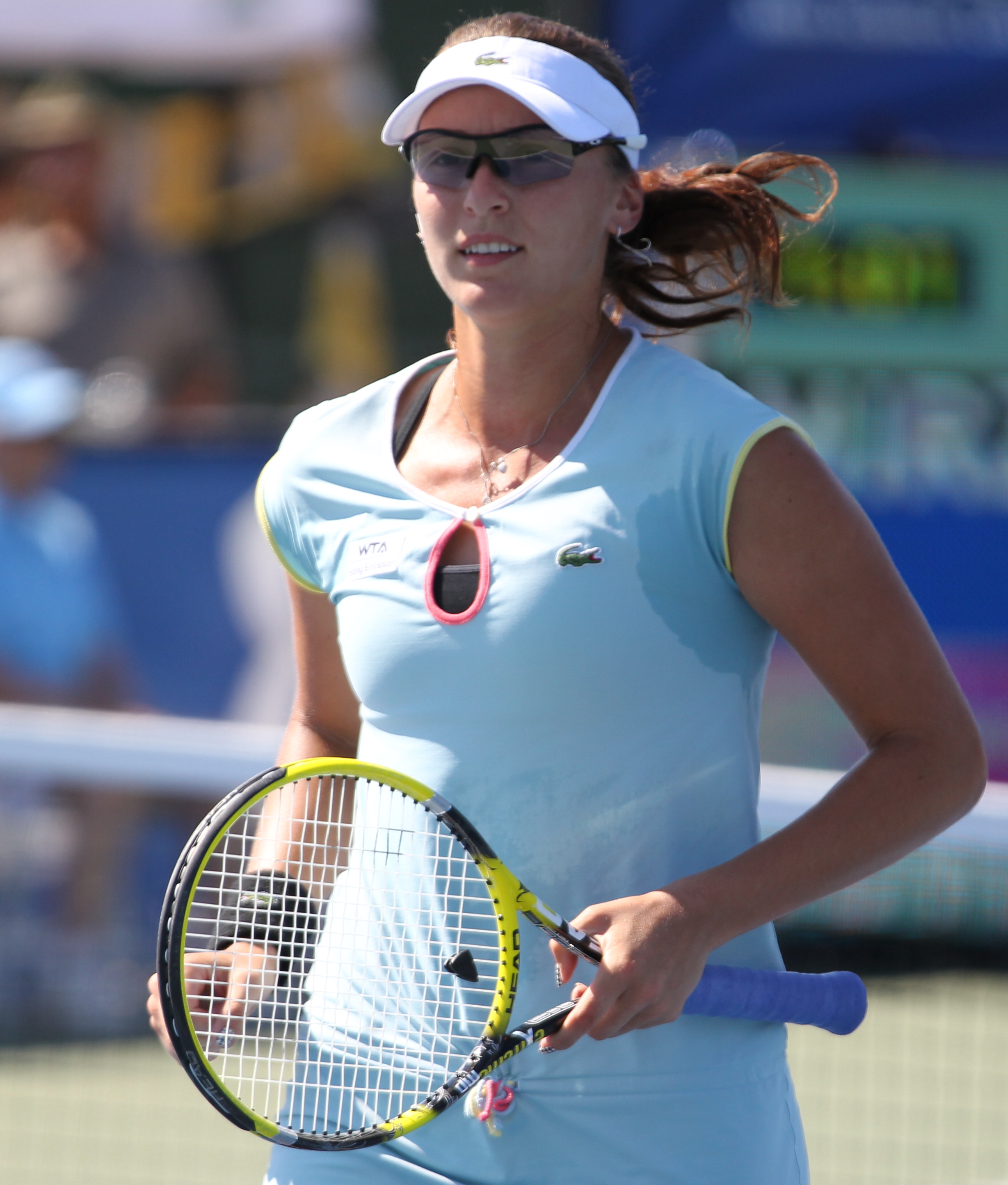 Yaroslava Shvedova in Citi Open Tennis on July 31, 2011